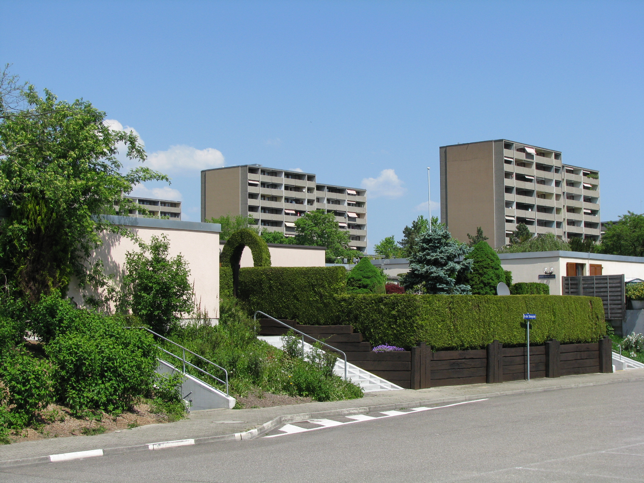 The quarter "Augarten" of Rheinfelden